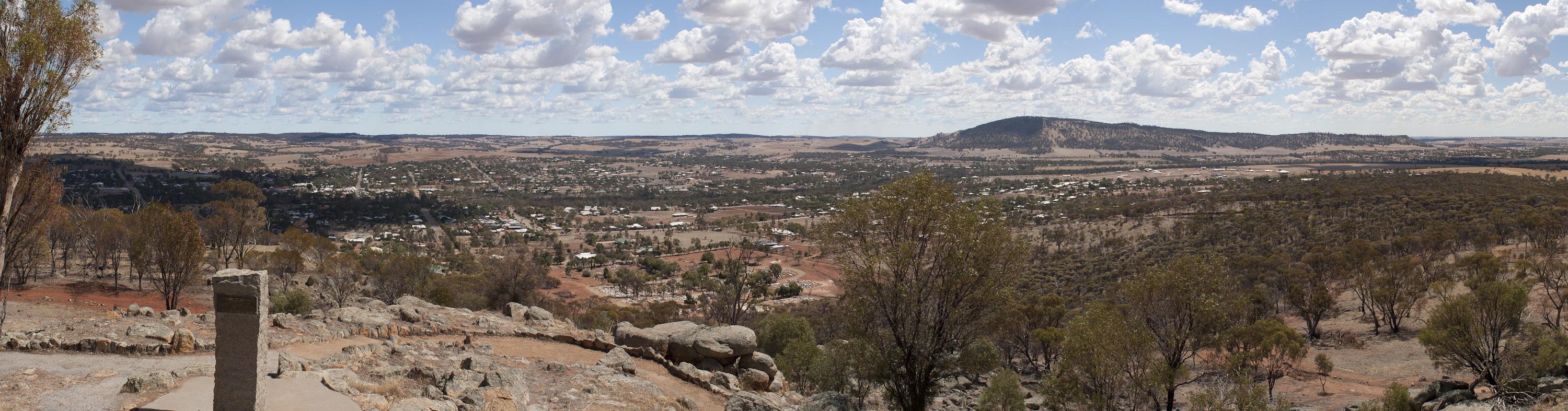 York from Mount Brown lookout